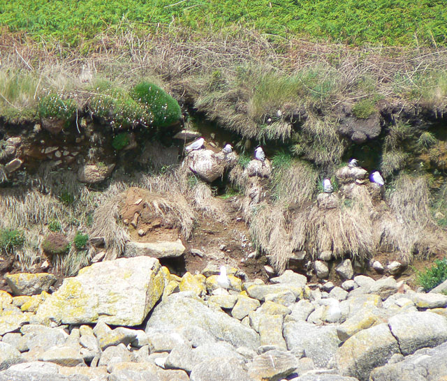 Kittiwakes on the low cliffs, Annet, Scilly By late June, the Kittiwake chicks have fledged, but the adults are still hanging around the nest sites. These cliffs are only a few metres above high tide mark. The effects of salty spray can be seen by the yellow lichens on the boulders below. At the top is the bracken-covered plateau of Annet, fringed with what look like brambles. The bay, just south of Annet Head, is a favourite spot for the tourist boat passengers to see Kittiwakes and Puffins.